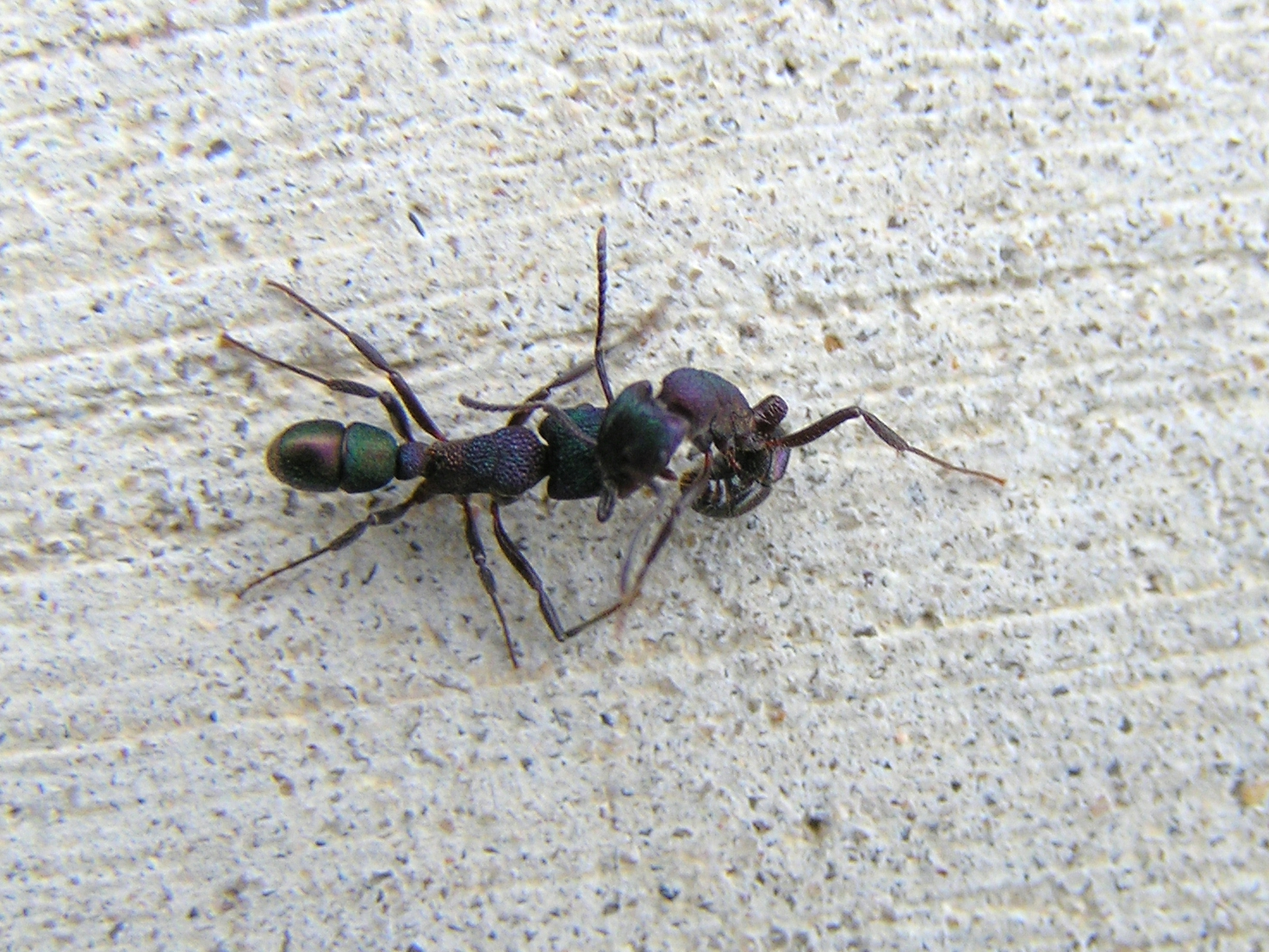 These green ants took a dislike to each other for some reason